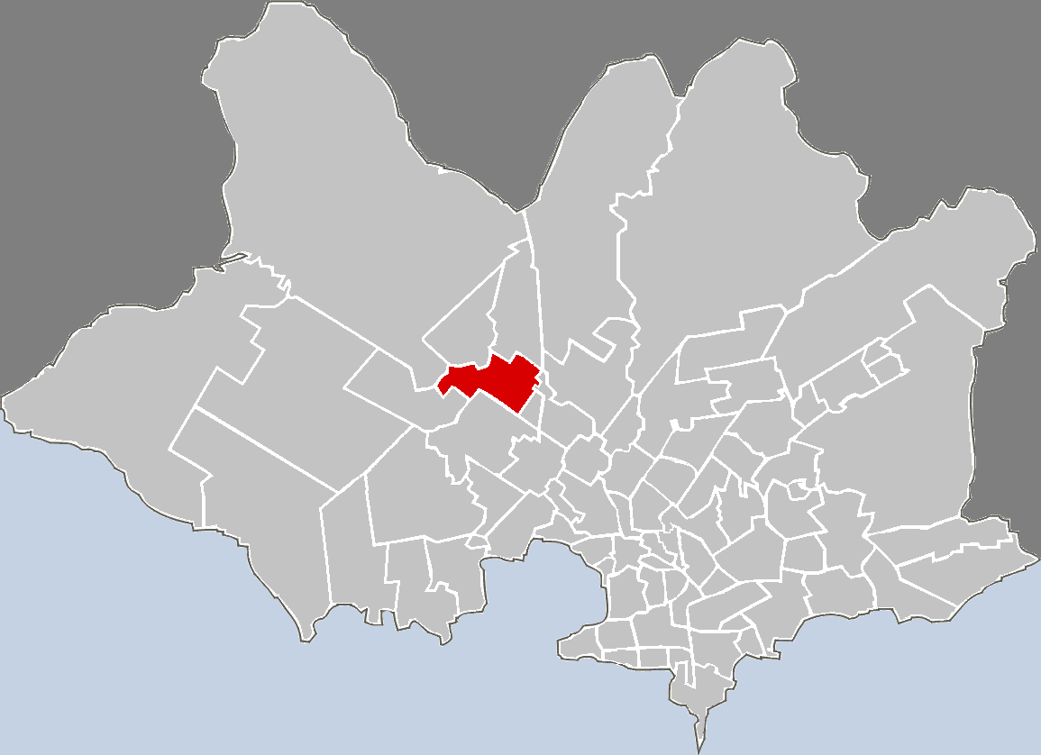 Map highlighting the given barrio in Montevideo.